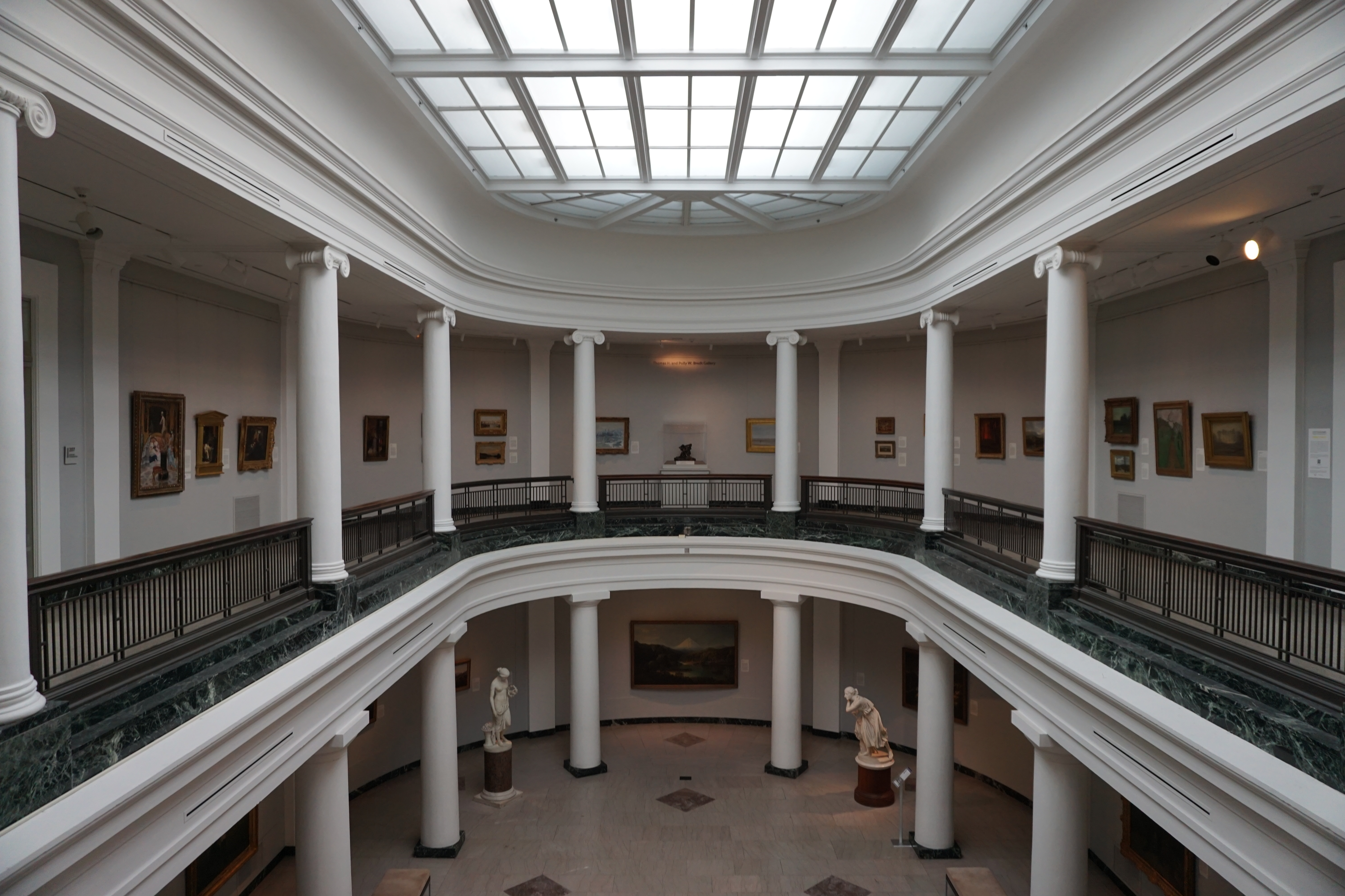 The European & American Art Gallery at the University of Michigan Museum of Art in Ann Arbor, Michigan (United States).